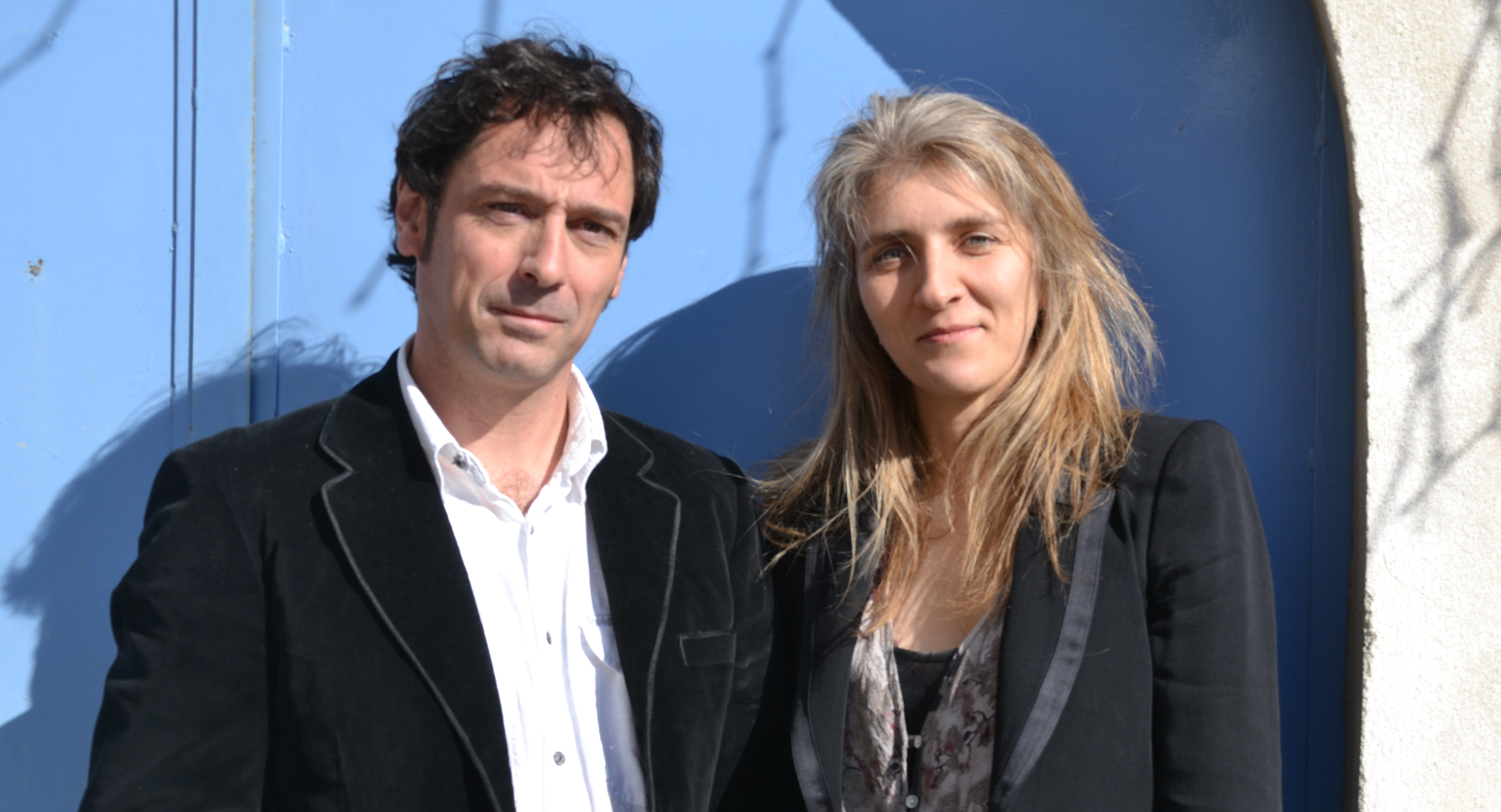 Christophe Cavard et Sandra Solinski